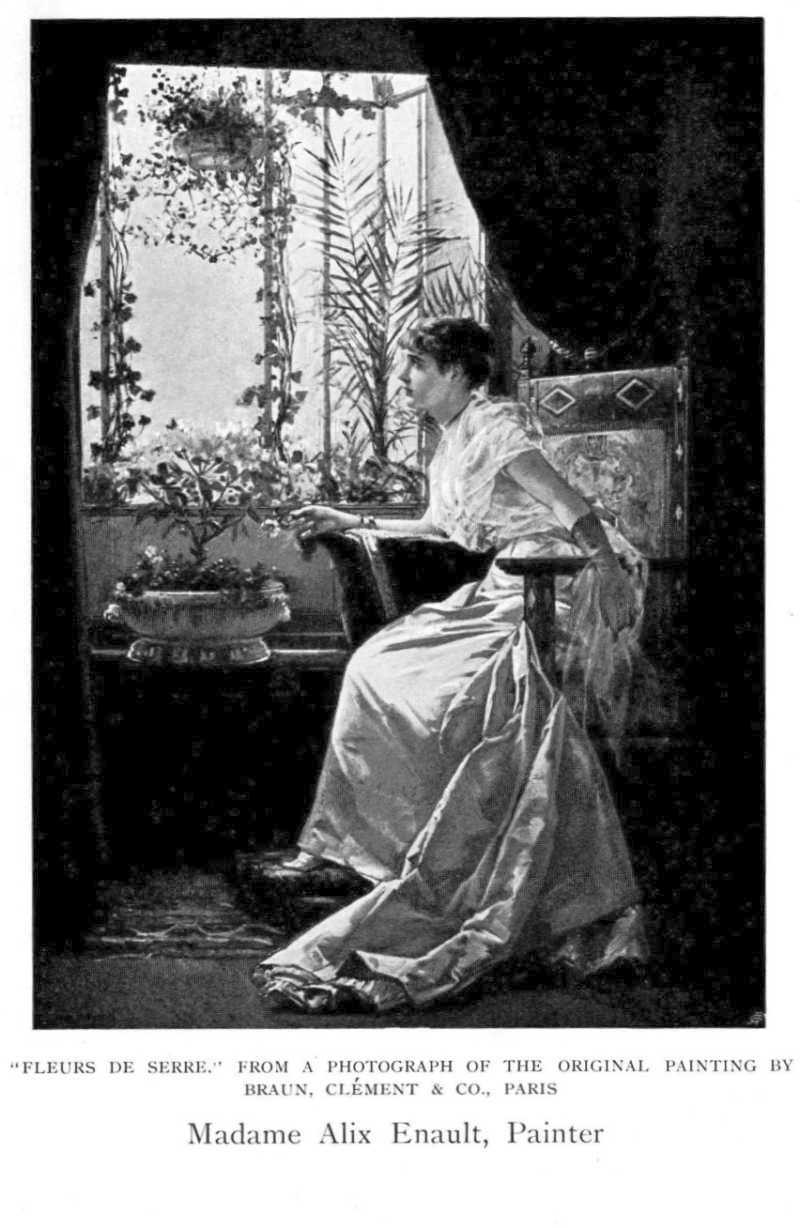 1905 print after page of Women painters of the world, from the time of Caterina Vigri, 1413-1463, to Rosa Bonheur and the present day, by Walter Shaw Sparrow, The Art and Life Library, Hodder & Stoughton, 27 Paternoster Row, London.